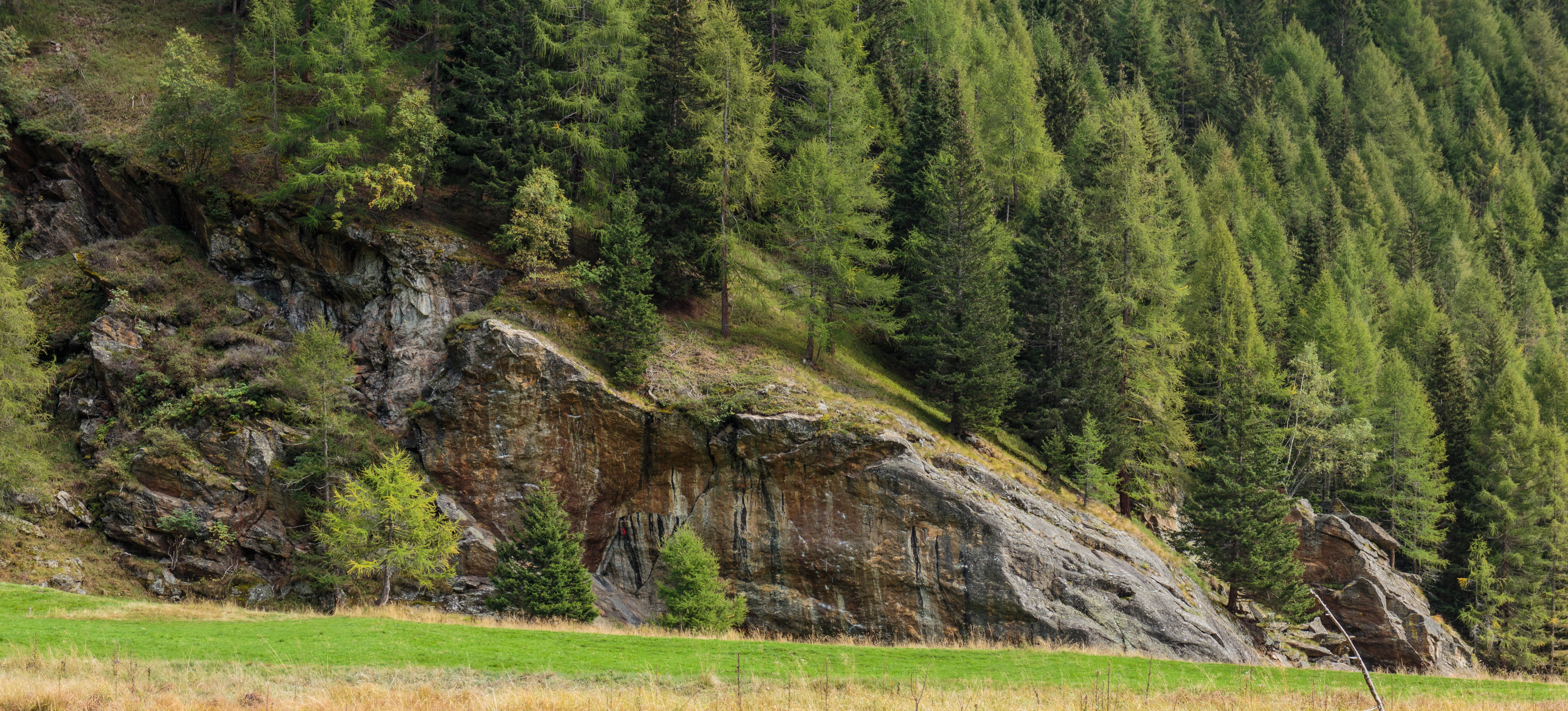 Mountain walk from Pejo to Lago Covel (1,839 m) in the Stelvio National Park (Italy). Landscape around Lake Covel.